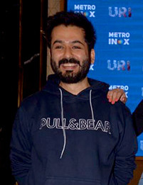 Aditya Dhar at the special screening of Uri